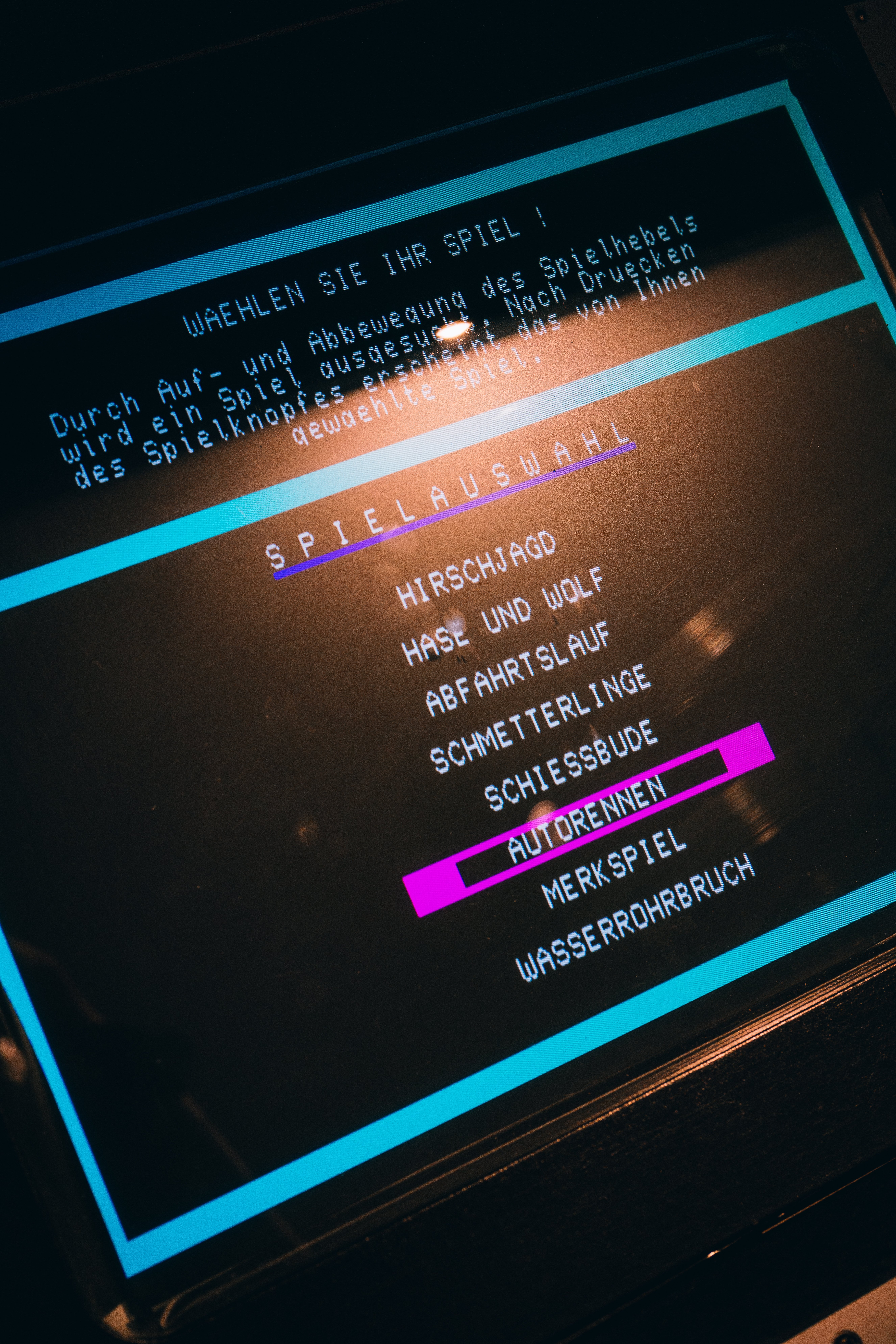 Polyplay